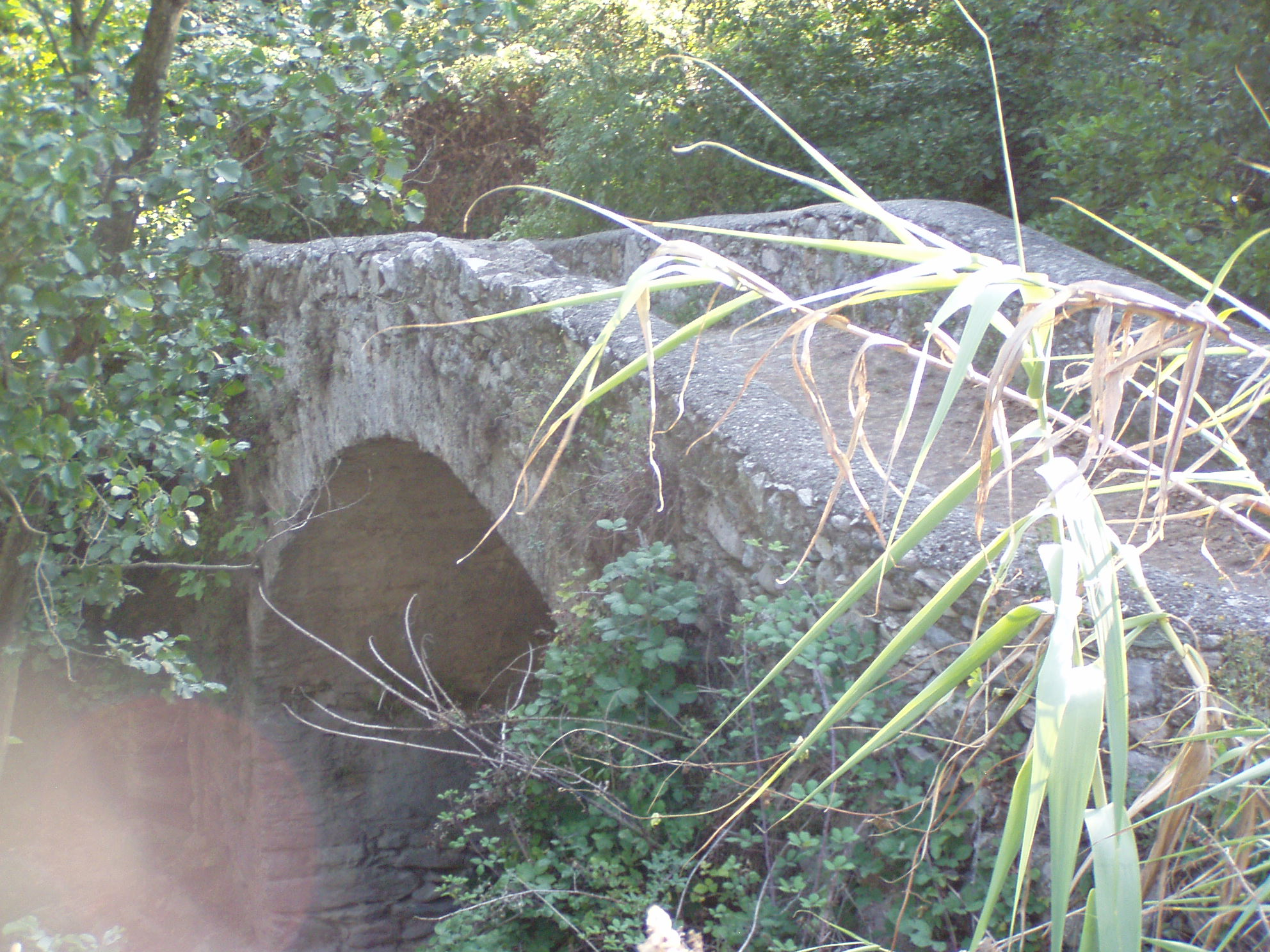 roman bridge Erli